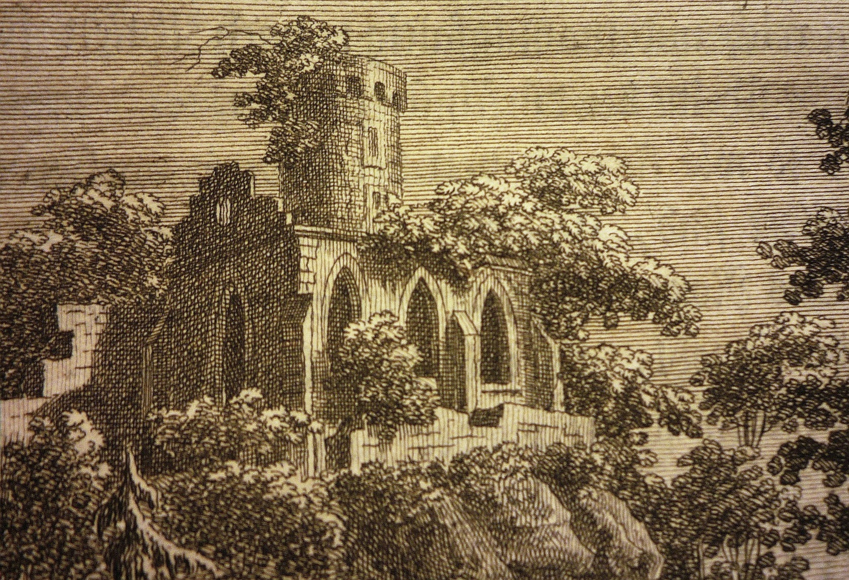 Artificial ruin according to Christian Friedrich Schuricht (Excerpt of the painting)